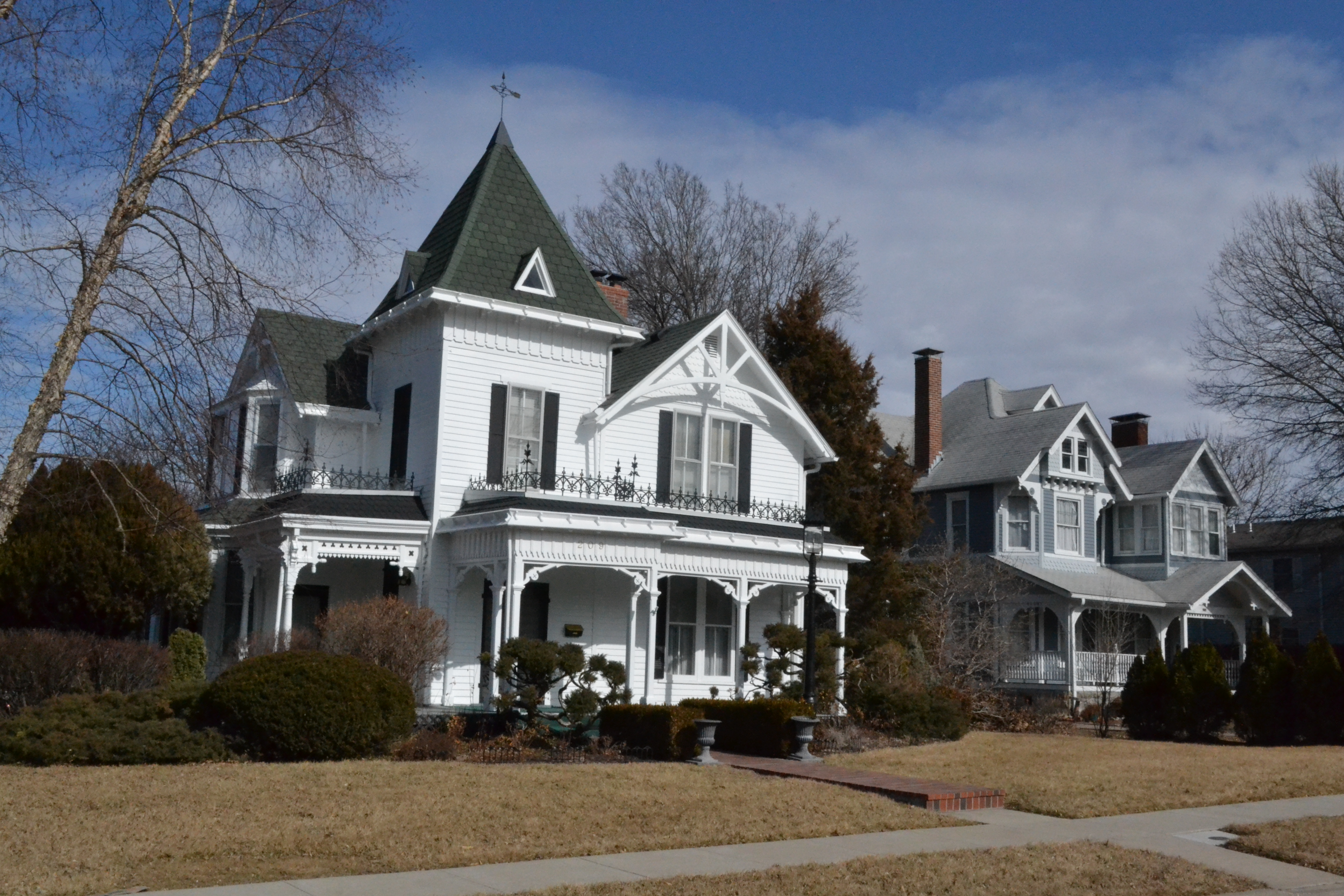 The Jack House (left) and the Markward House (right). Contributing houses to the Grover Street Victorian Historic District